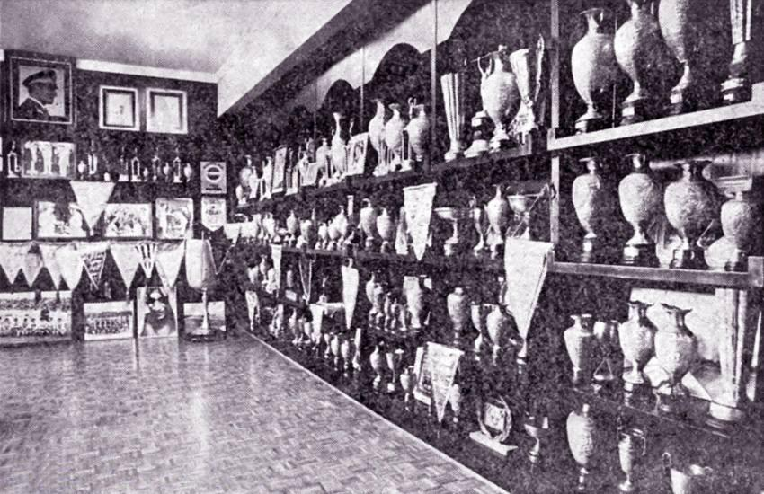 Taj SC Museum 1970s